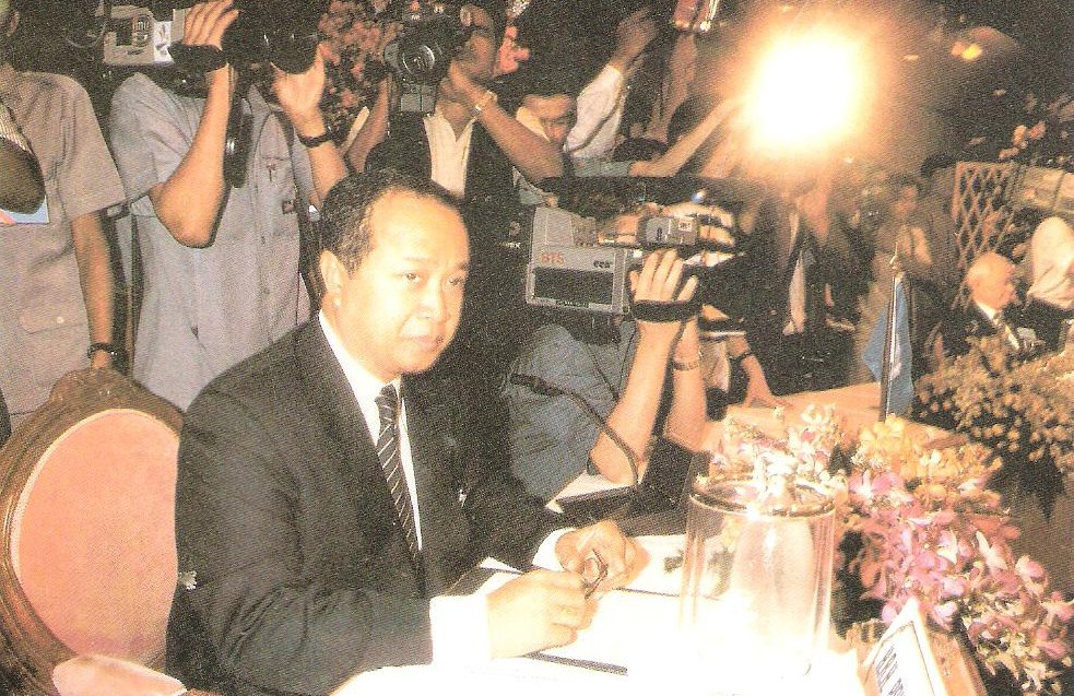 Co-Prime Minister Norodom Ranariddh giving a press interview to journalists.